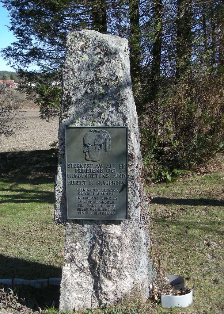 Hubert Humphrey memorial at Tveit cemetery (Kristiansand, Norway)